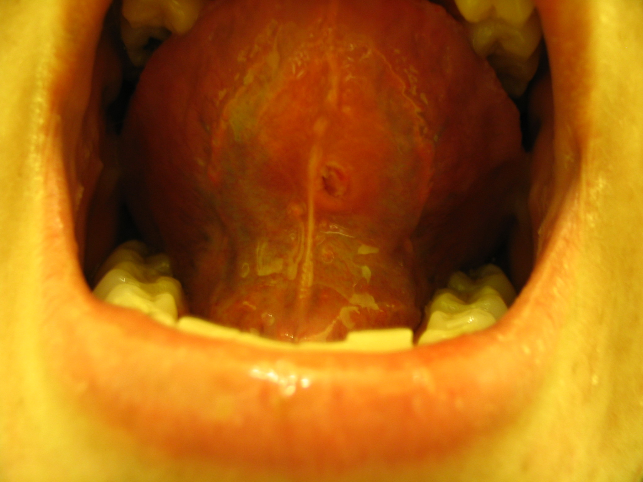 Scar of a tongue piercing on the bottom part of the tongue